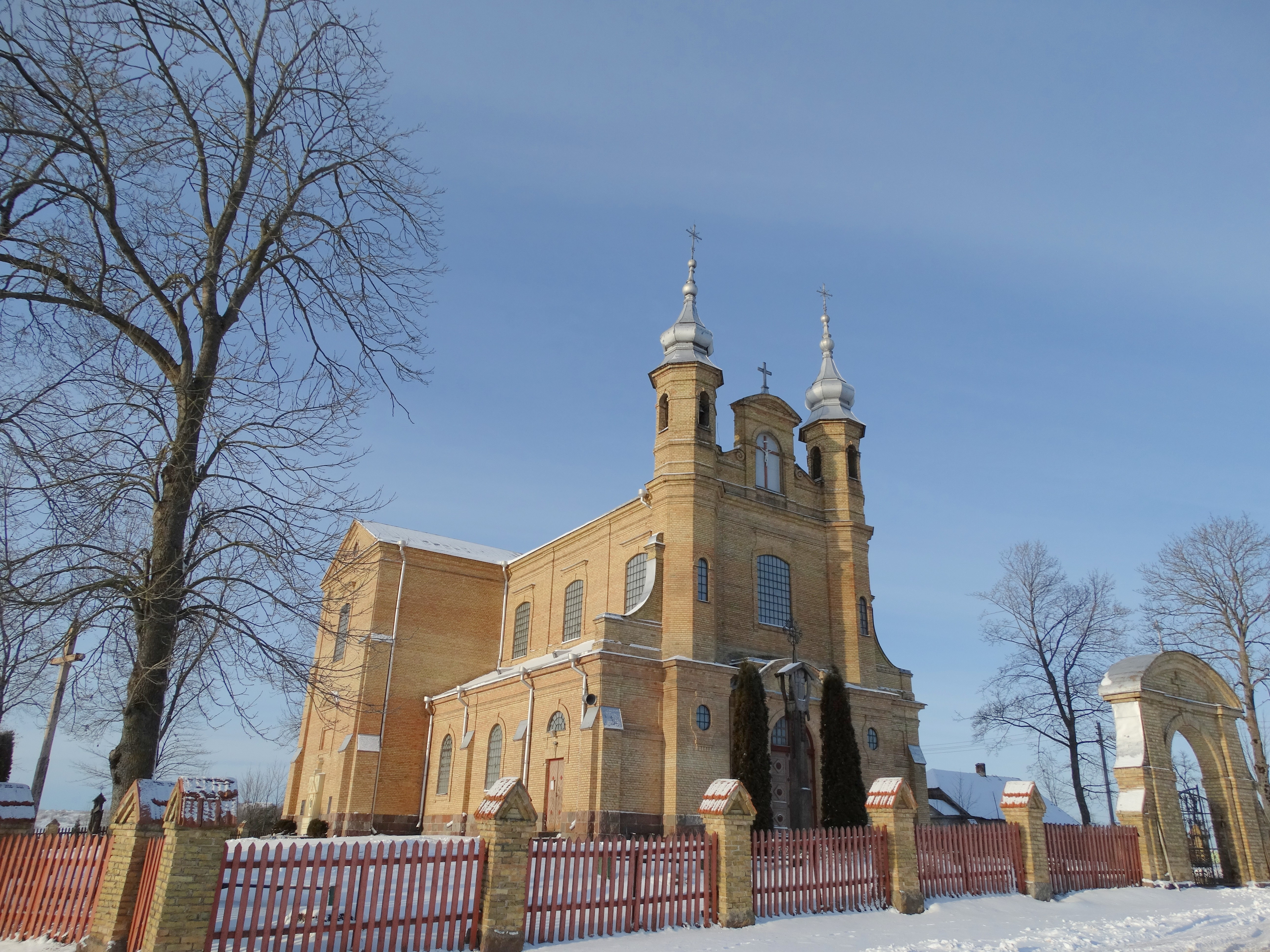 St. Trinity Catholic Church, Kietaviškės, Elektrėnai Municipality, Lithuania